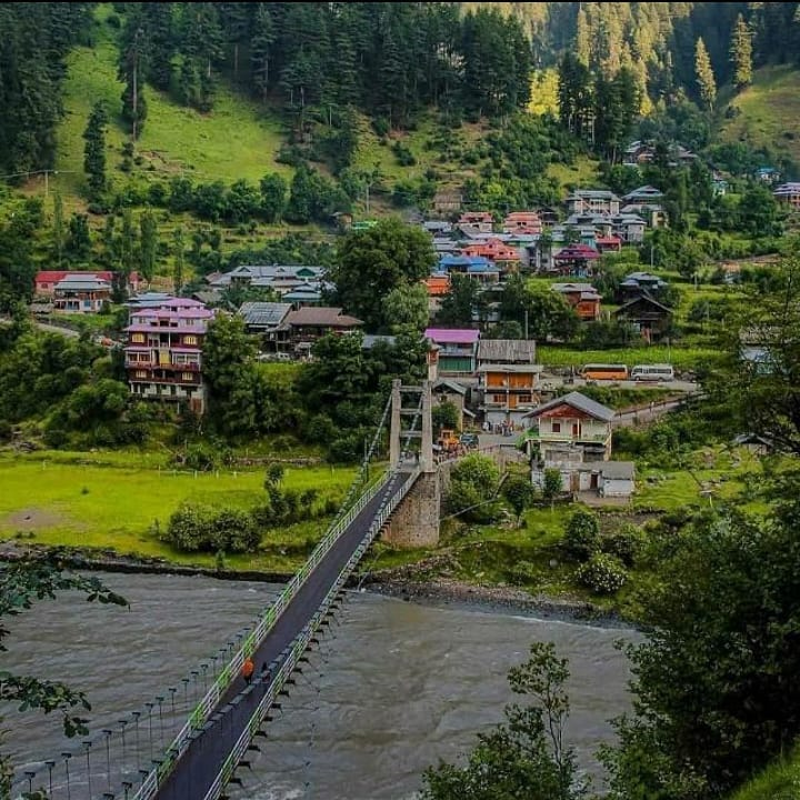 Dosut, Neelum Valley, Azad Kashmir, Pakistan